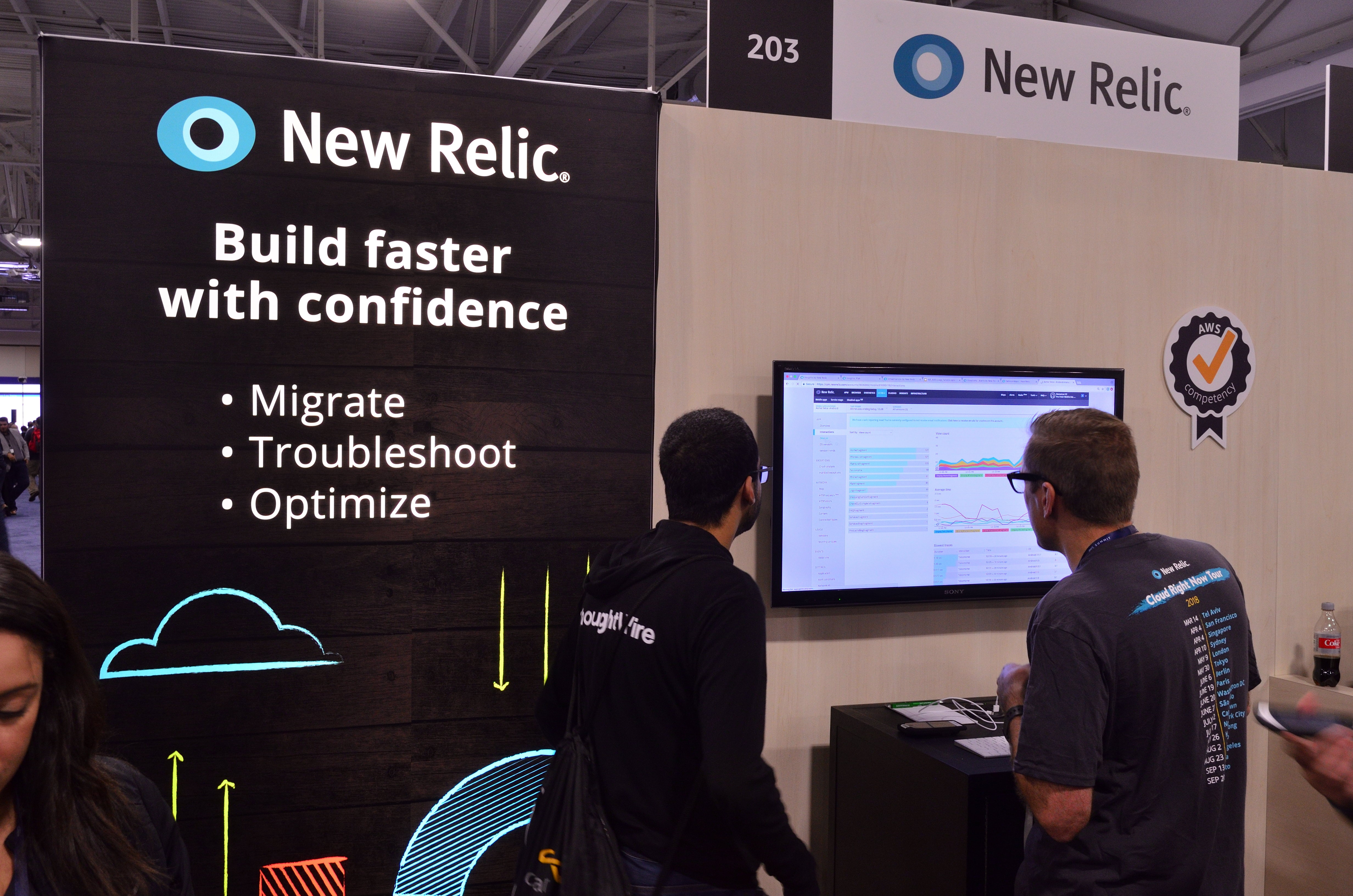 NewRelic at AWS Toronto Summit 2018